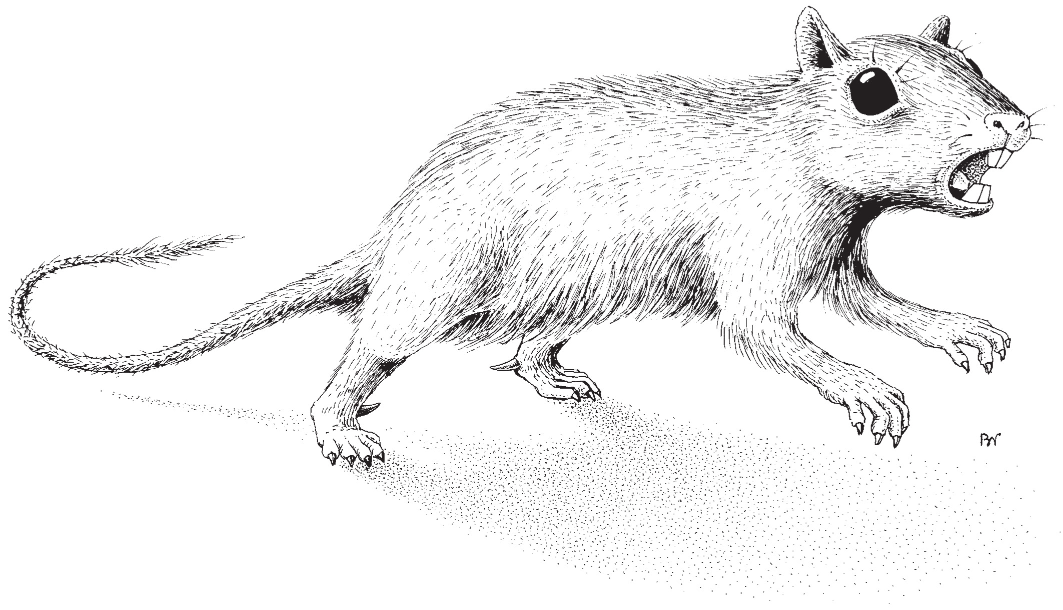 Reconstruction of the posture of the Late Cretaceous multituberculate Catopsbaatar catopsaloides (Kielan−Jaworowska, 1974) from the Gobi Desert, Mongolia, as a plantigrade mammal with sprawling limbs. Skull length is about 60 mm. The size of the spur has been reconstructed based on the length of the male spur in Ornithorhynchus in comparison to the length of the foot. The animal is reconstructed in aggressive position, ready for attack, with mobile spurs projecting medially.